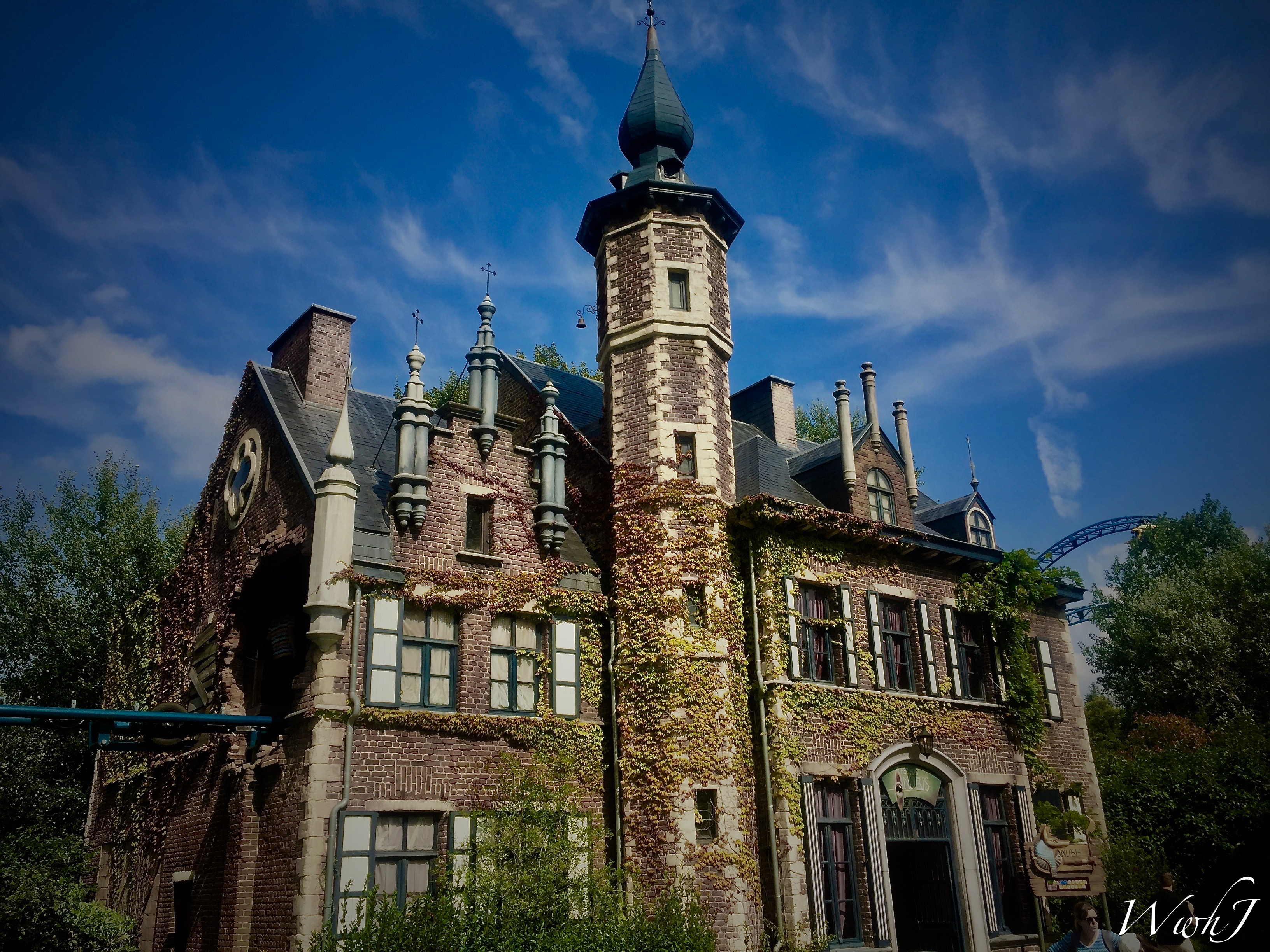 Anubis The Ride is a rollercoaster in the amusement park 'Plopsaland De Panne' in Belgium which is based on the television series Het Huis Anubis. The house is a replica of a castle in Morstel, Belgium, which was used as the setting of the series.